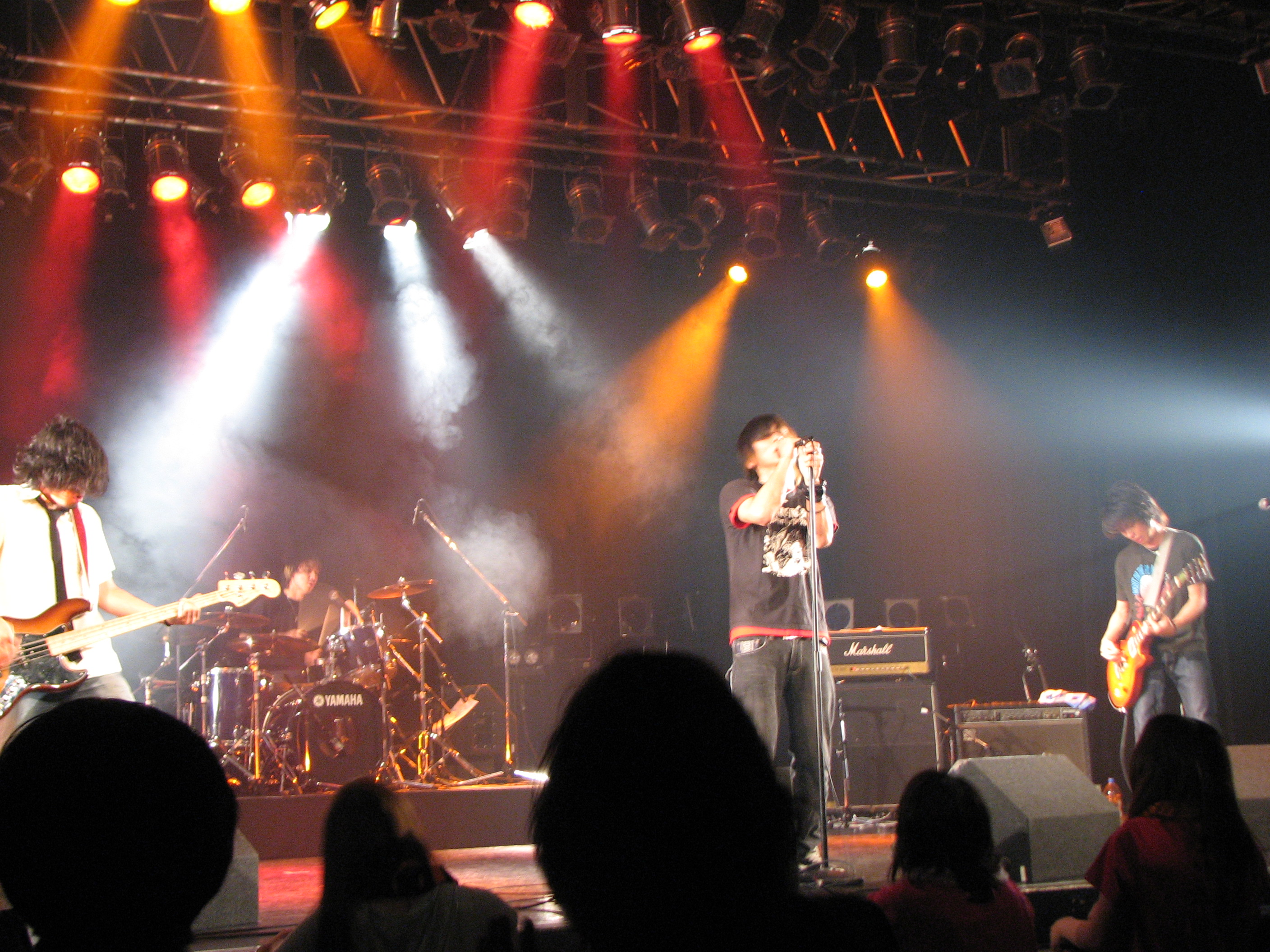 SKUNK SHOT BOOSTER. Taking in summer live in CLUB CITTA' (Kawasaki, Japan) on July 4th, 2008.